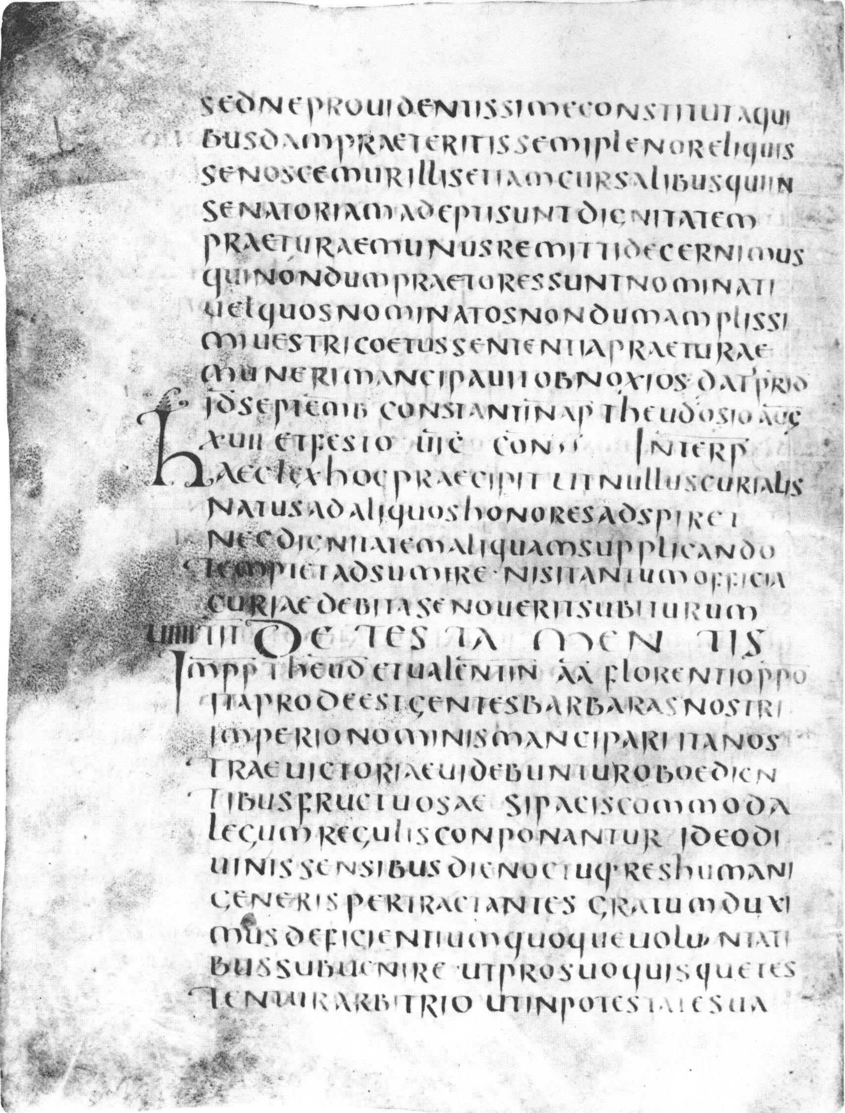 Breviary of Alaric (Lex Romana Visigothorum) in ms. Munich, Bayerische Staatsbibliothek, Clm 22501, fol. 178v.